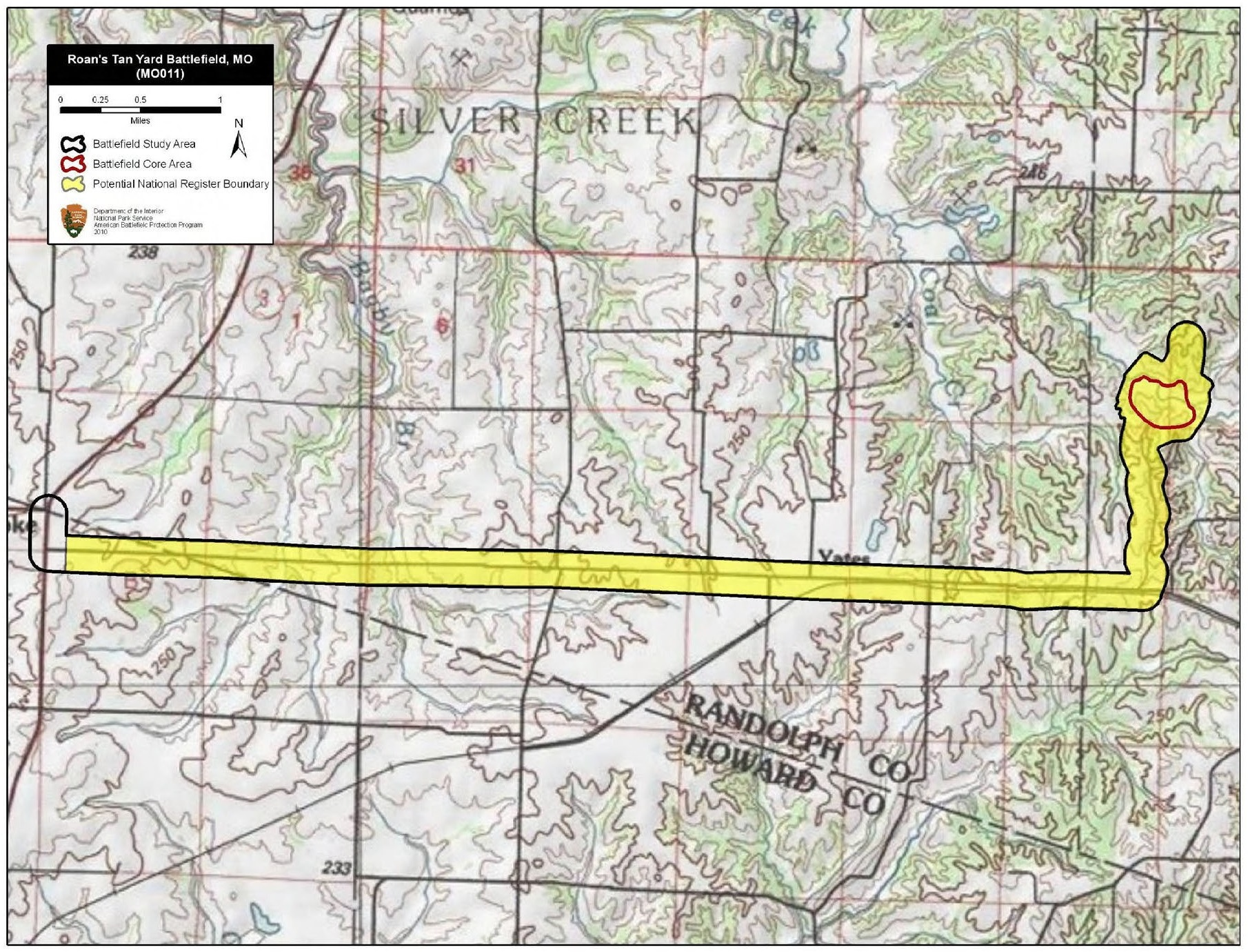 Map of battlefield core and study areas. The 1993 Study Area was extended out to Roanoke, Missouri, where the Federal expedition joined forces. The ABPP used satellite images of the landscape to identify the "tortuous windings of a narrow road" (Missouri Democrat, January 9th, 1862) on which the Federal force travelled to Silver Creek. The 1993 Core Area was reduced to focus on the location of fighting directly south of Silver Creek and the location of the creek bed that Confederate troops used as breastworks.